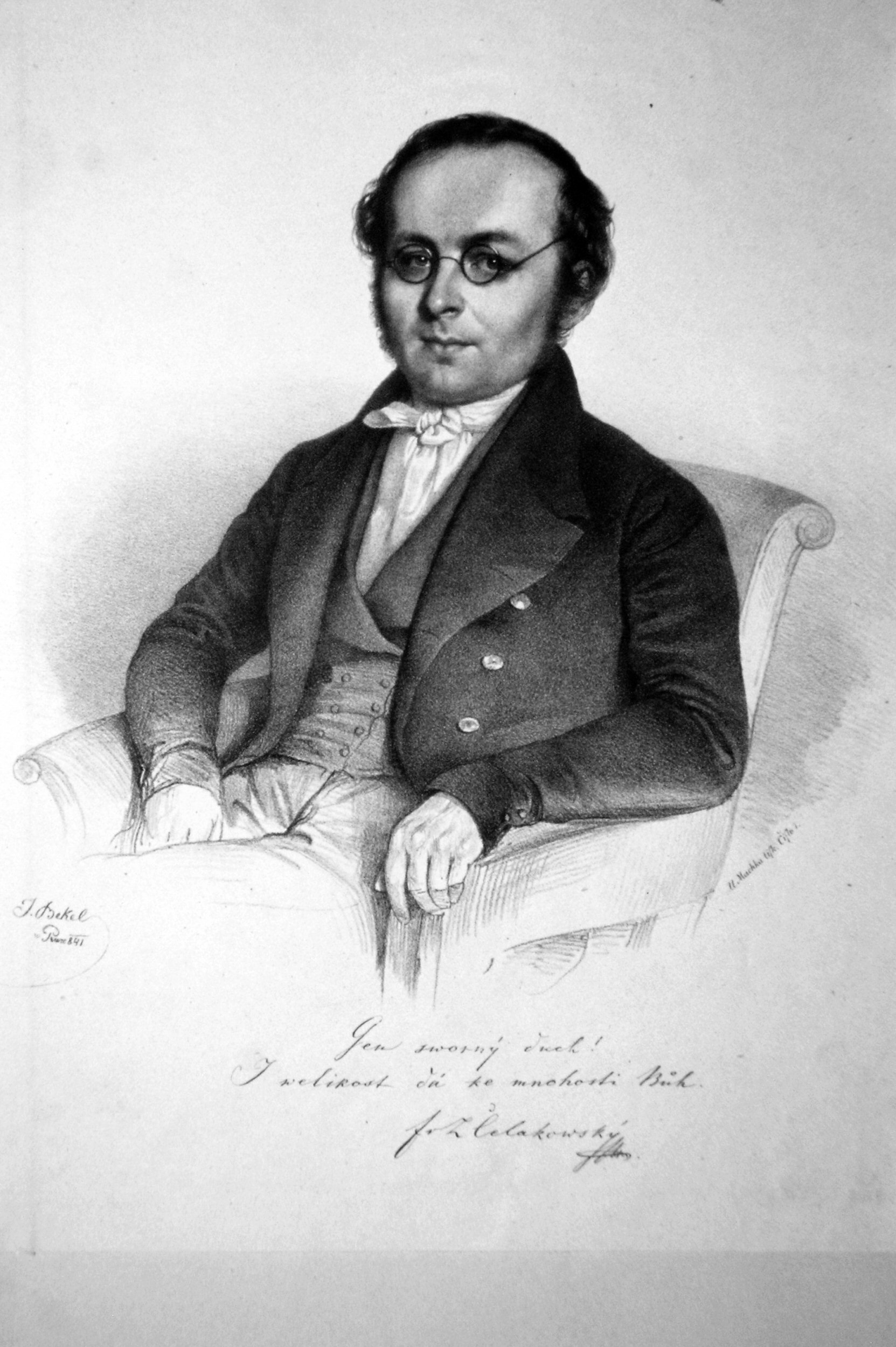 Frantisek Celakovsky (1799-1852), Czech writer and translater. Lithograph by Josef Bekel, 1841